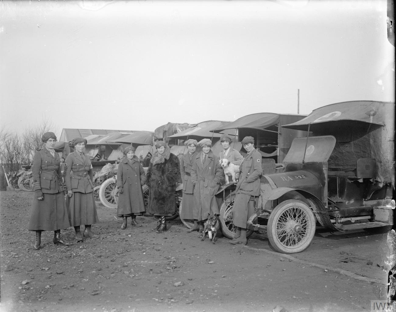 First Aid Nursing Yeomanry on the Western Front, 1914-1918 A group of women with the ambulances in Calais, January 1917.